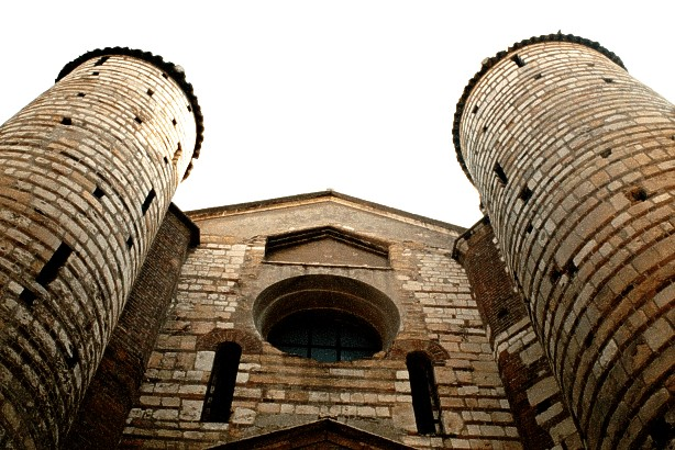 Verona, San Lorenzo: The western facade with towers